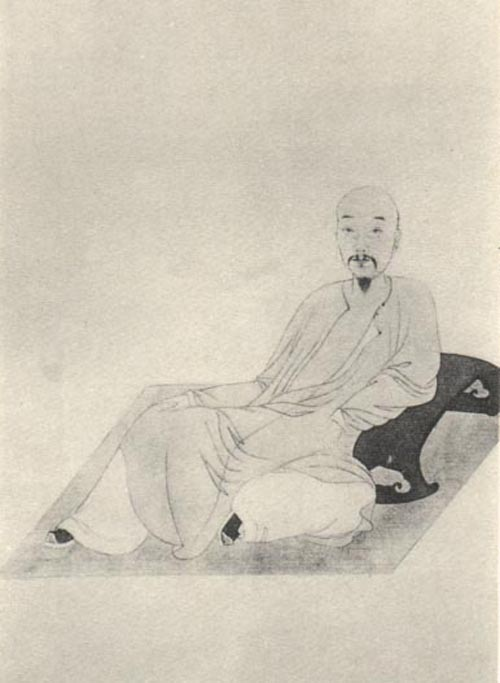 Ma Yueguan, scholar of the Qing Dynasty.